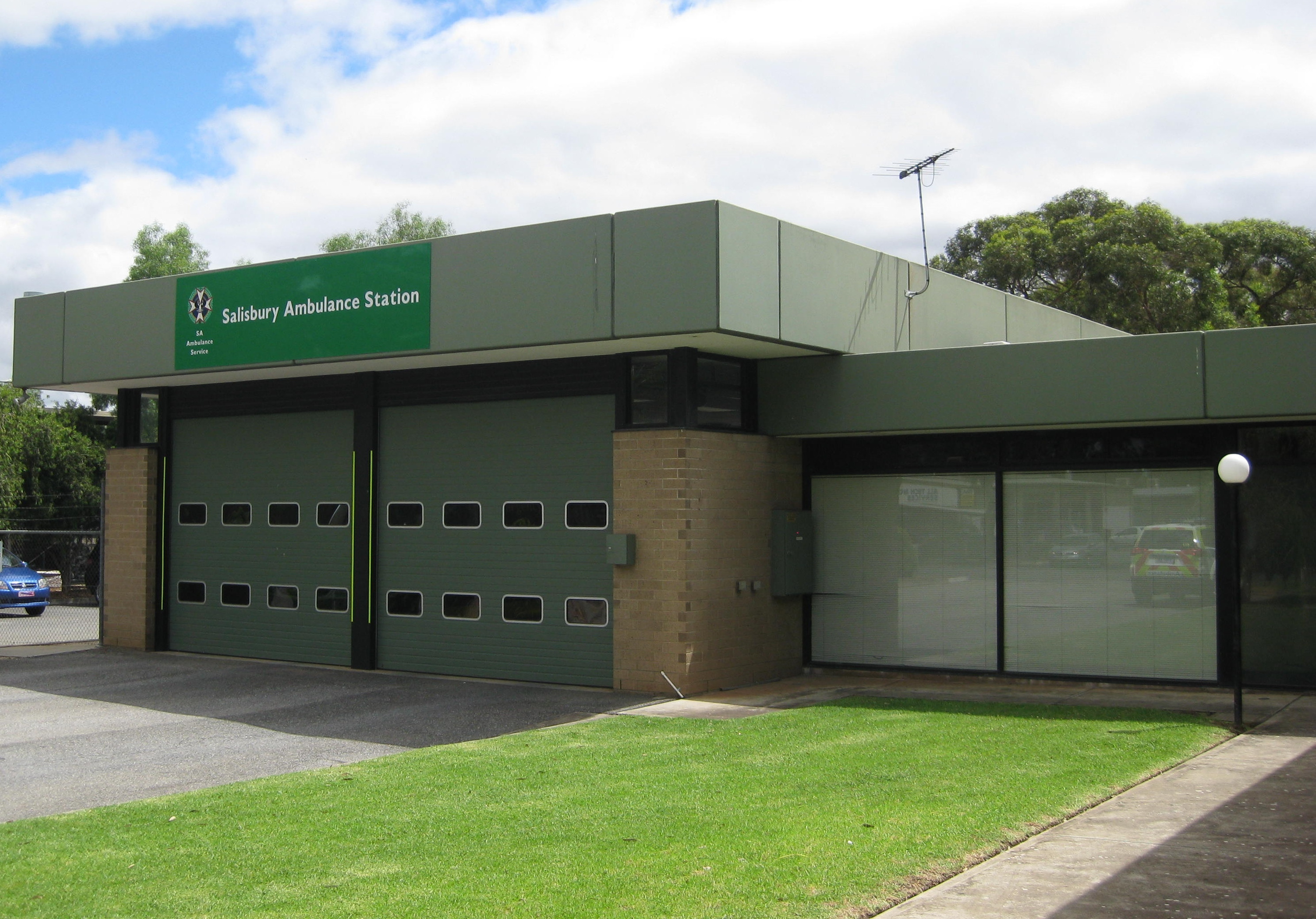 Front entrance of the Salisbury ambulance station, located on Bremen Drive, Salisbury South.